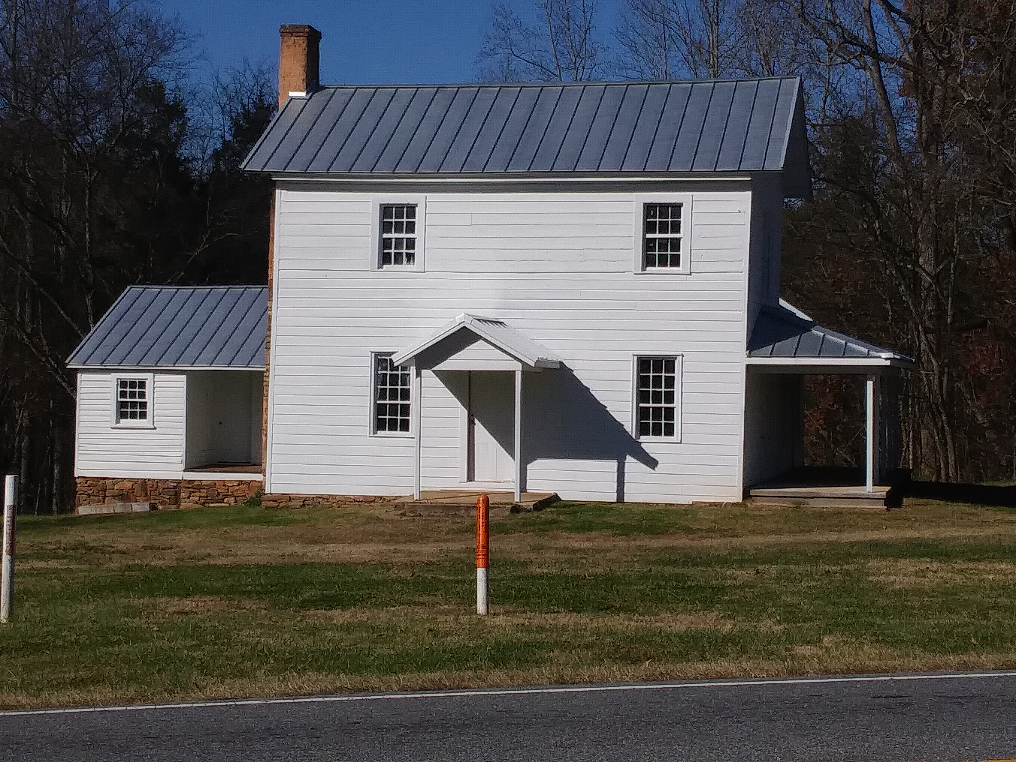 Bost Burris House located near intersection of Old Conover-Startown Road and Radio Station Road in Newton, NC